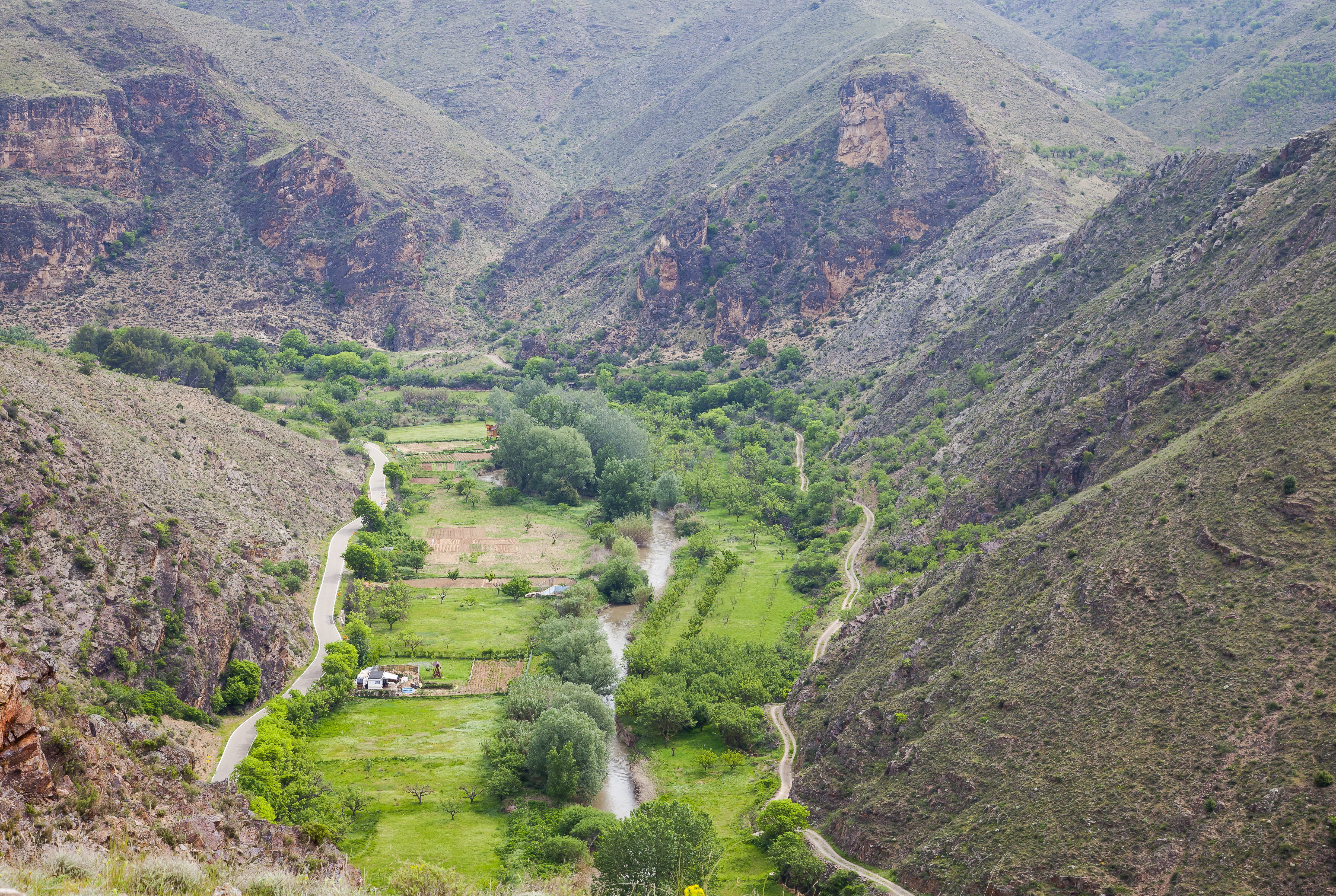 Canyons of the Jalón river, Huermeda, España